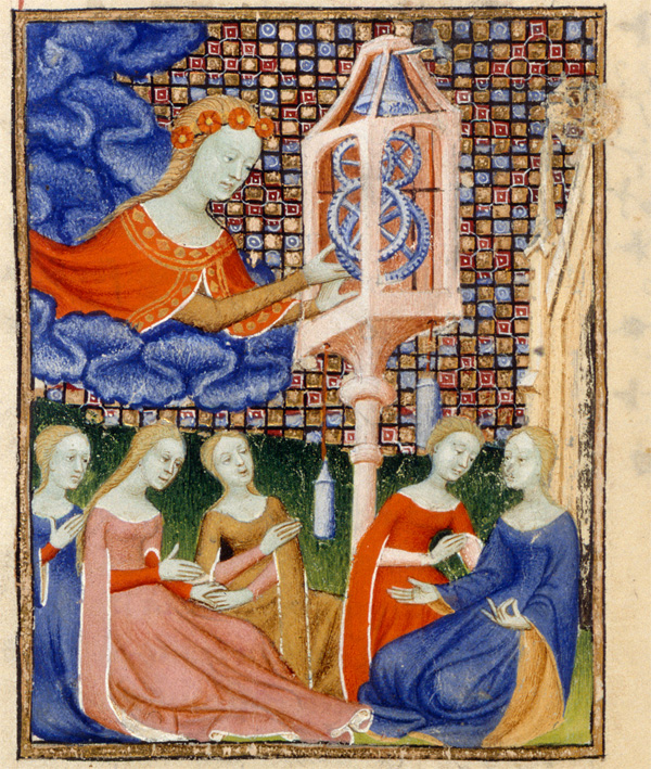 Prudence, Wisdom and Knowledge